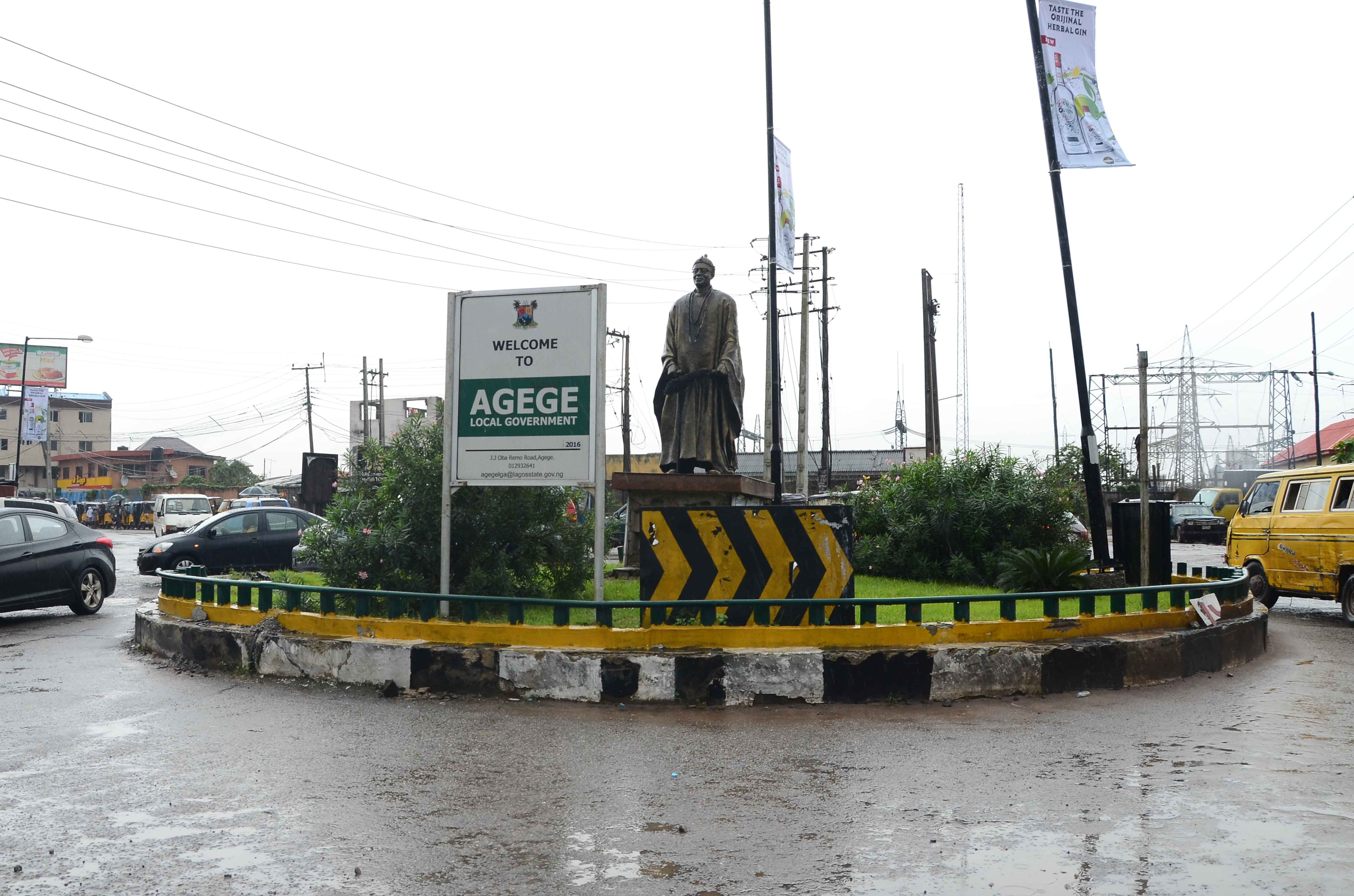 Oba Akran Statue Ogba Agege, Lagos